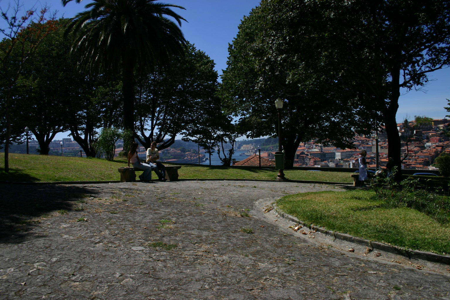 Author: António M.L. Cabral; Copy permited if the name of the author is included.